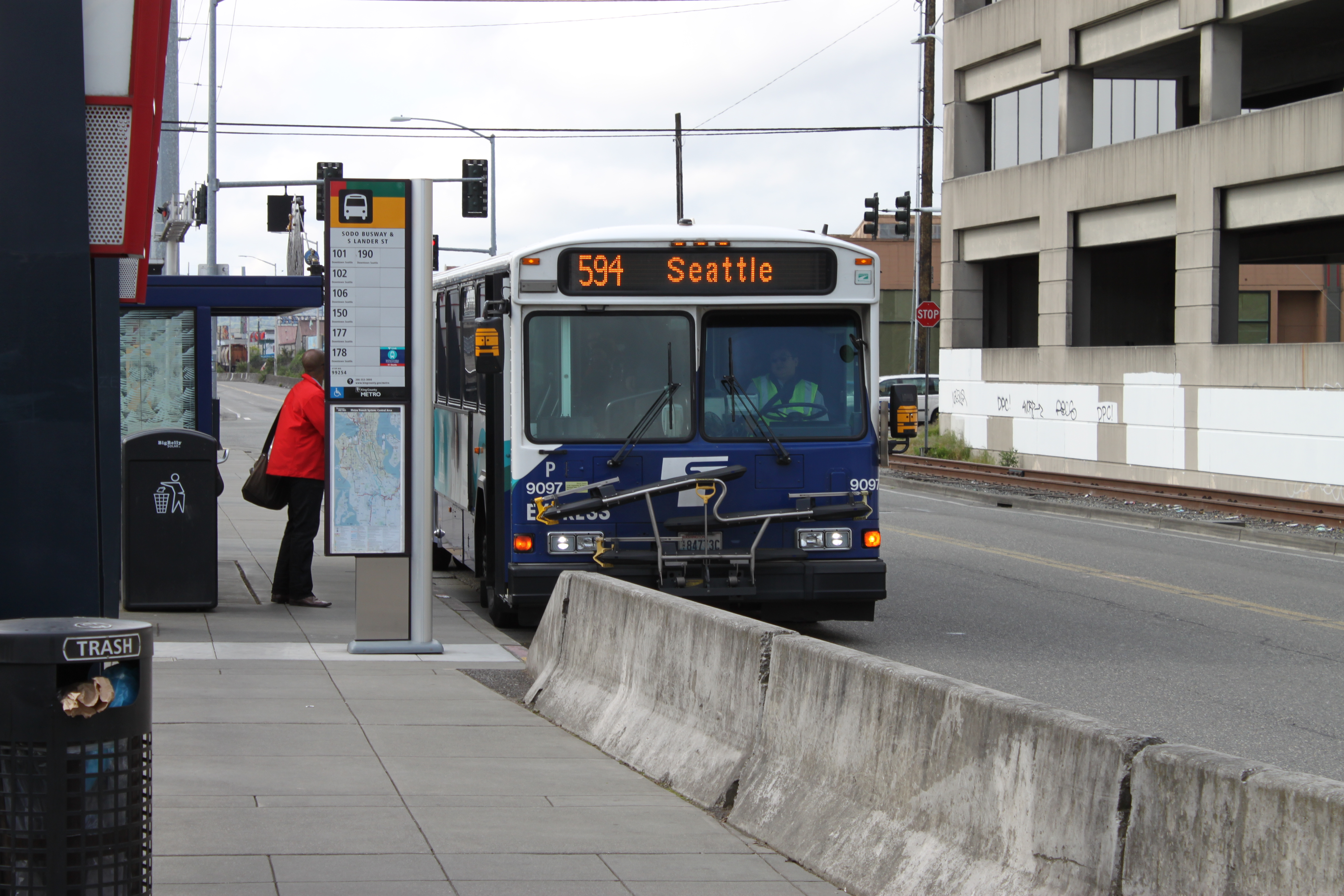 2008 Gillig Phantom on Sound Transit Express Route 594, operated by Pierce Transit